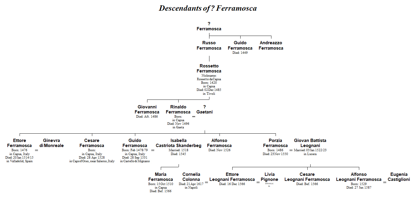 New version